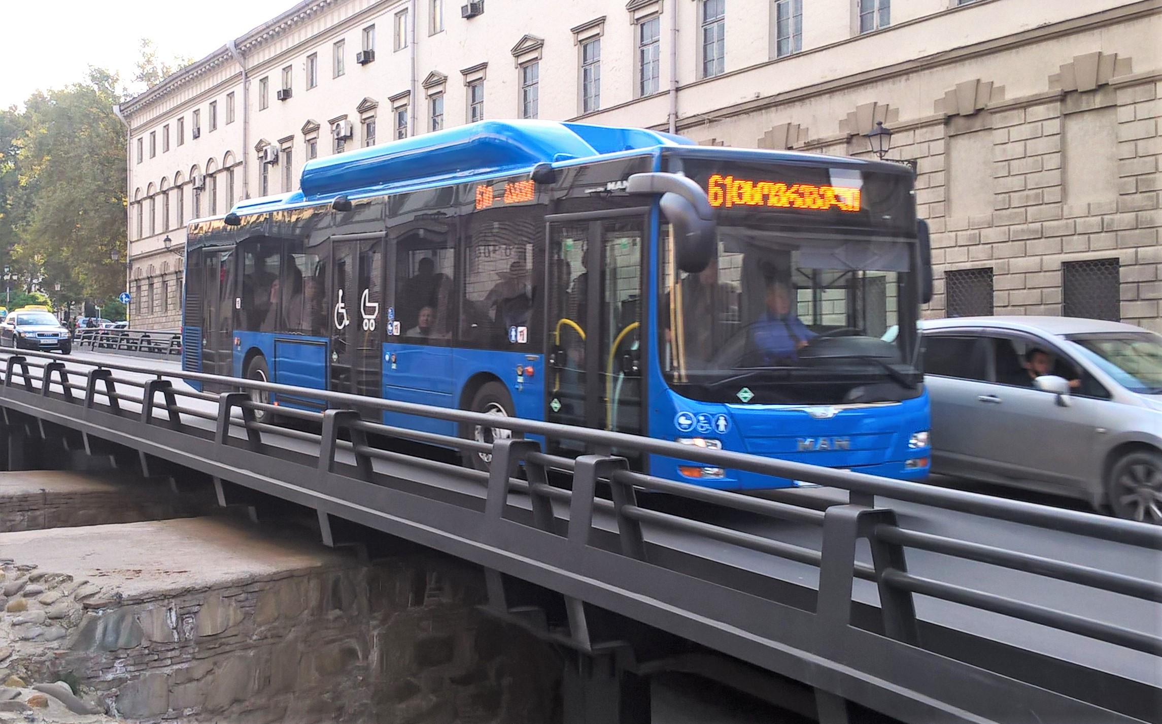 Tbilisi's new city bus - MAN Lion's city A21 CNG